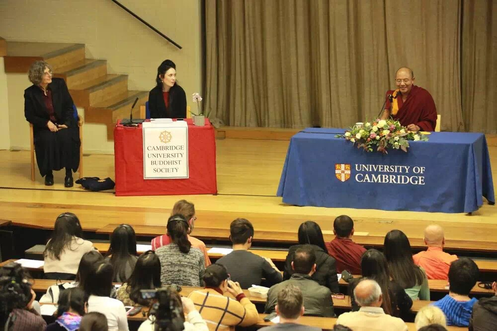 2015 Khenpo Sodargye Cambridge Talk